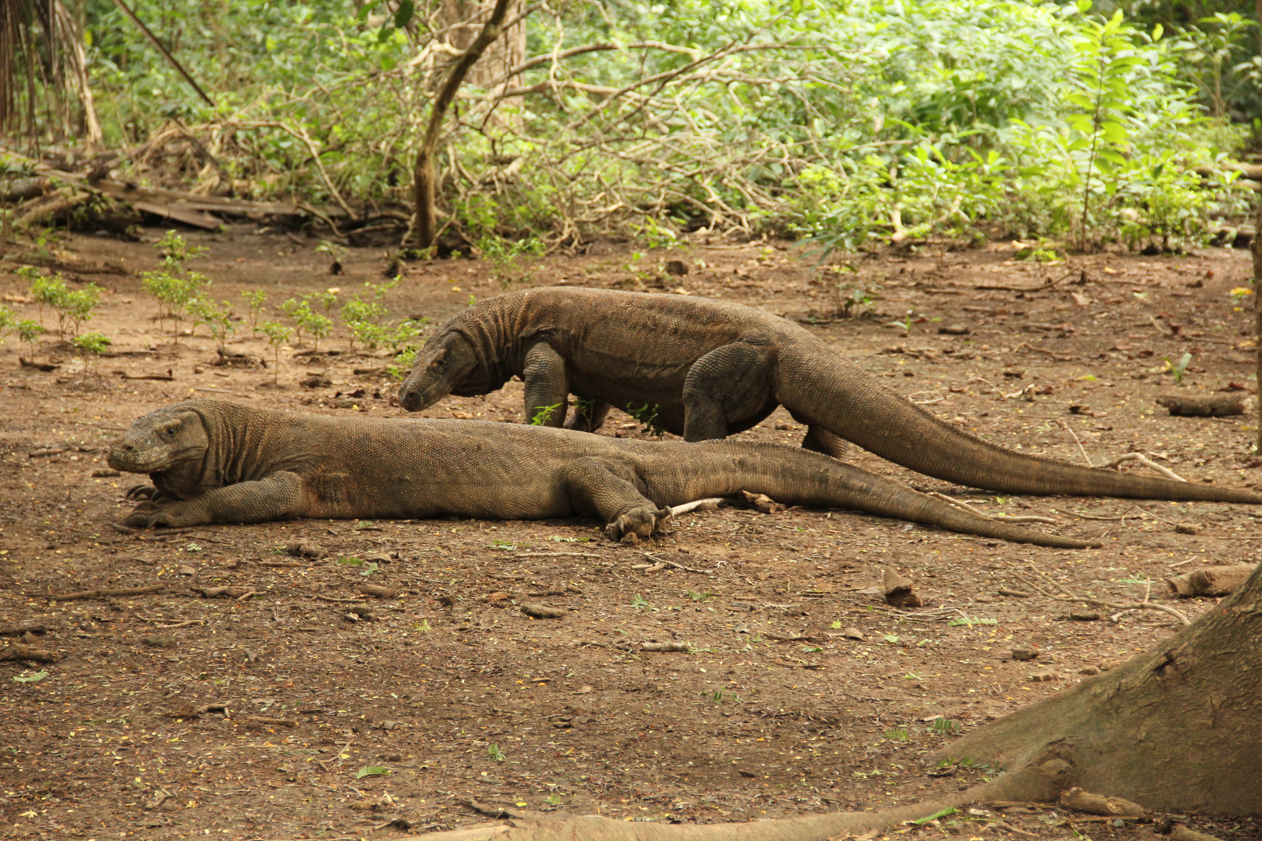 Two wild Komodo dragons (Komodo National Park)